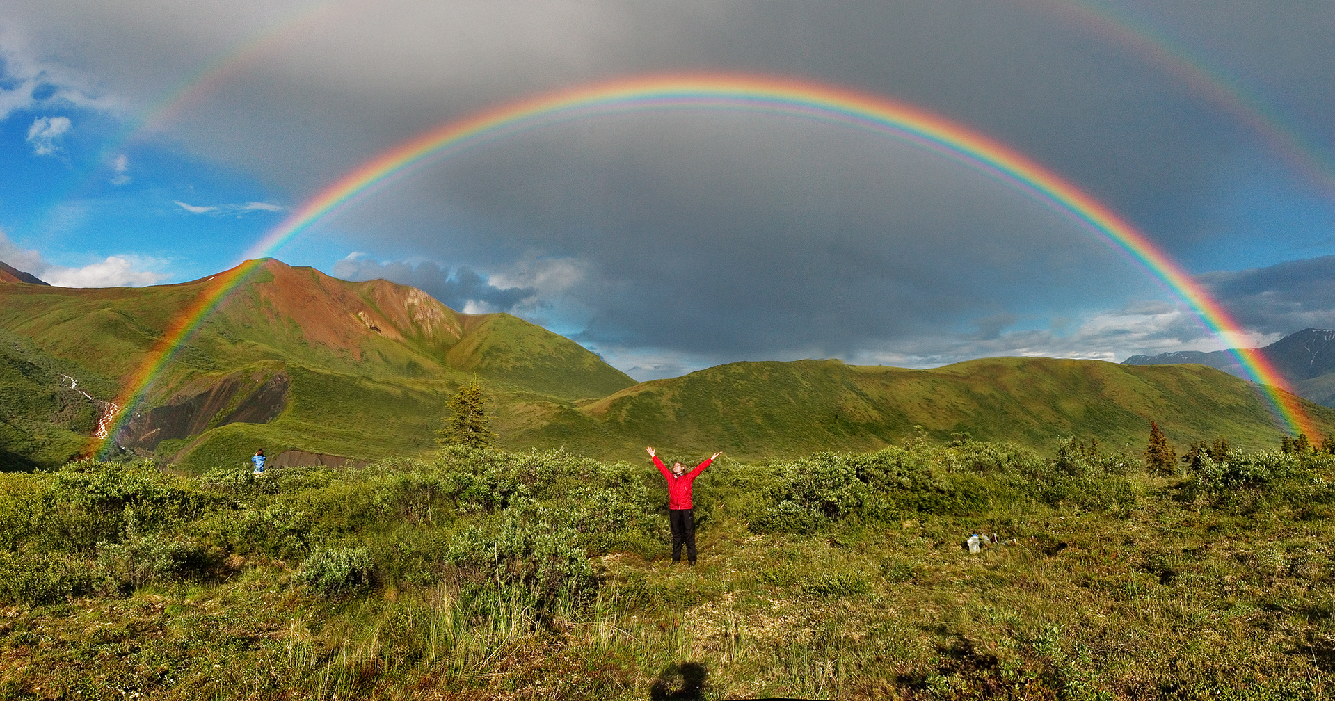 Full featured double rainbow in Wrangell-St. Elias National Park, Alaska.